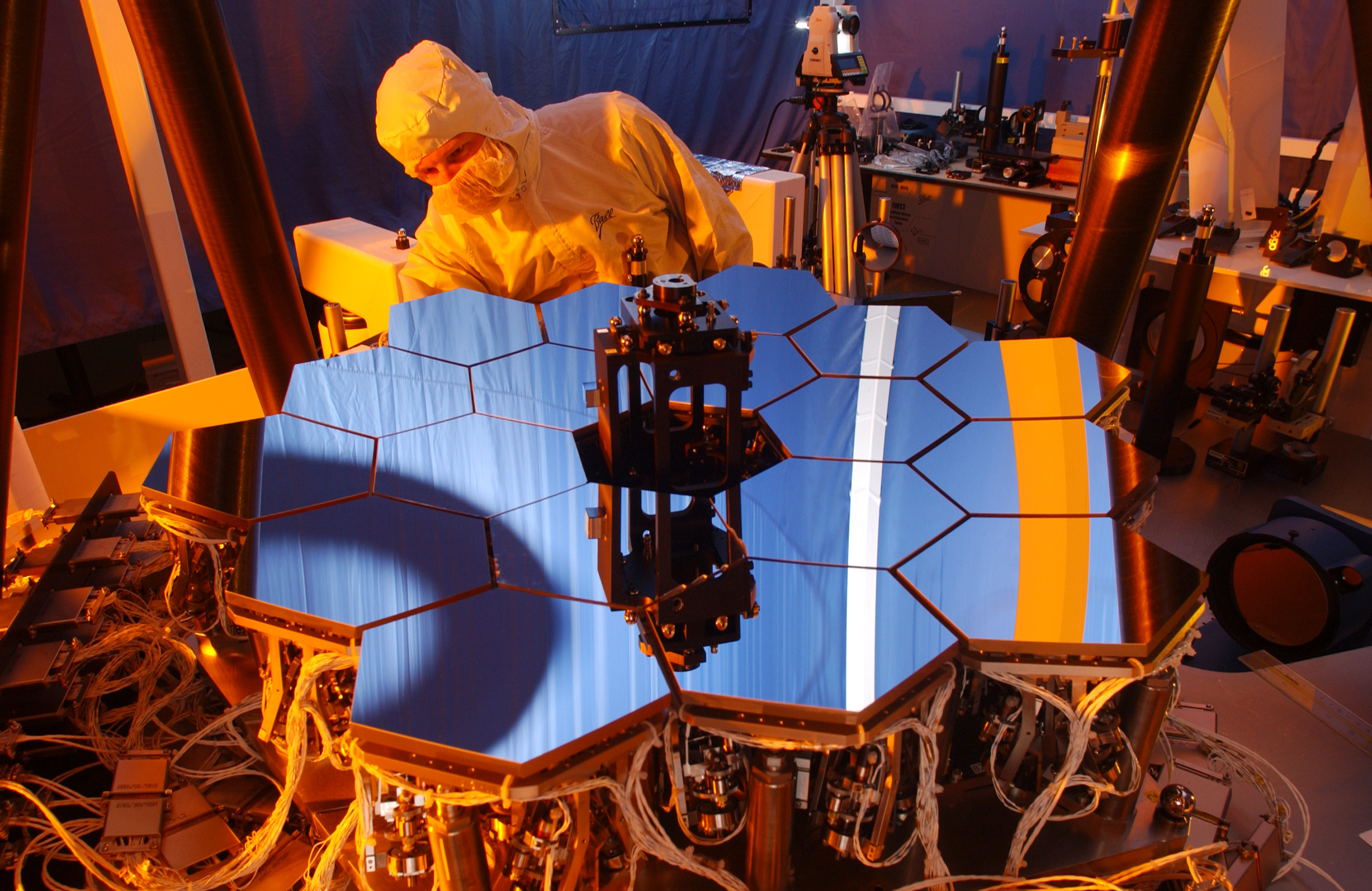 1/6th scale model of the James Webb Space Telescope primary mirror. page 3.